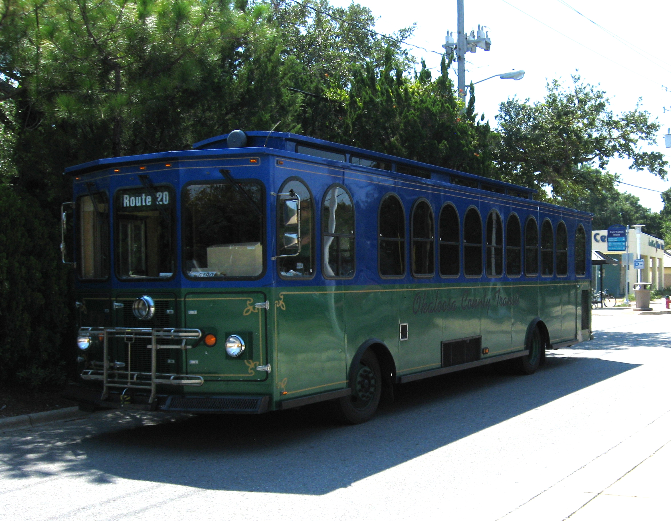 Picture of Okaloosa County Transit Bus